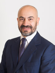 Senatore Paragone Gianluigi